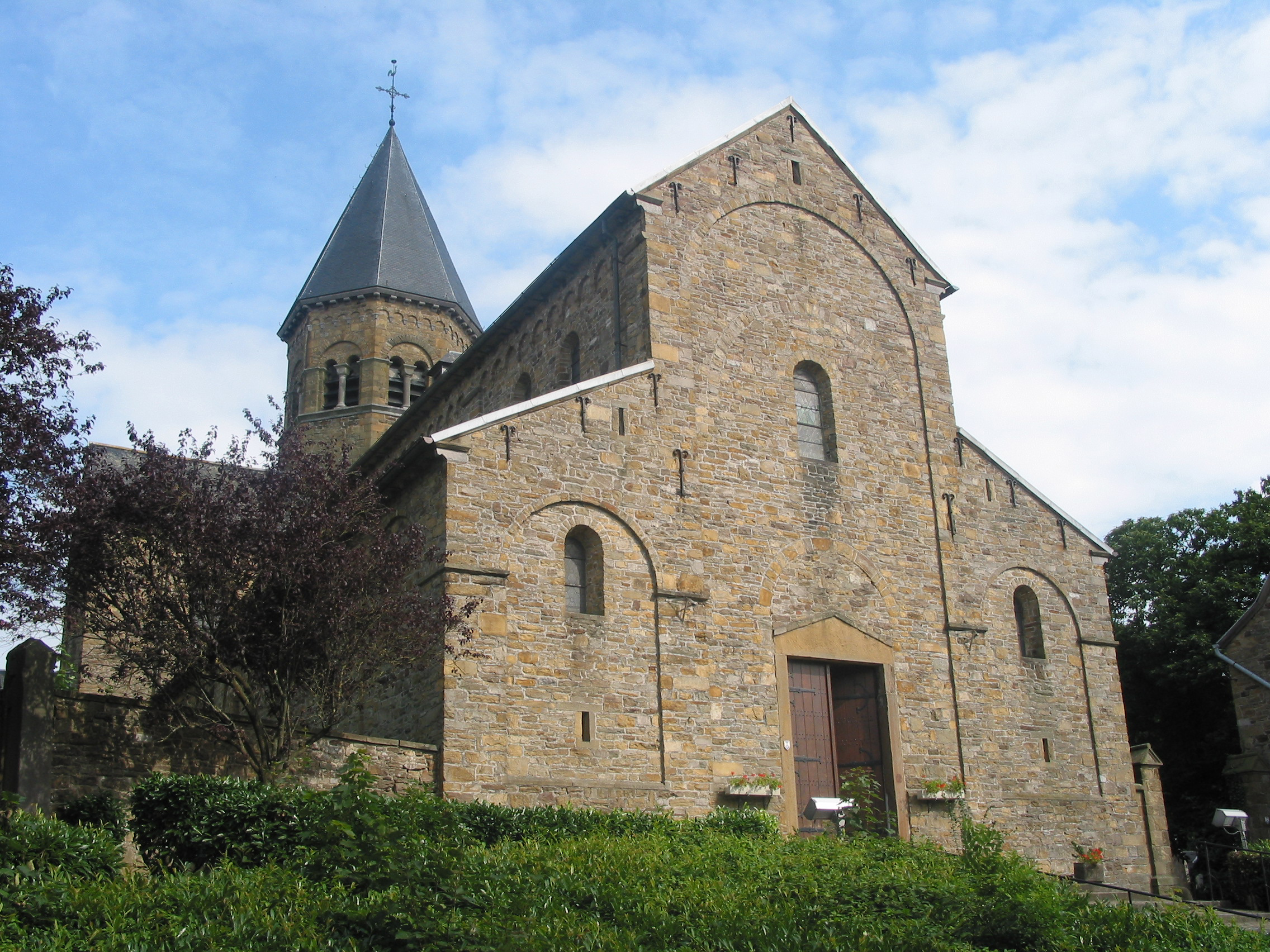 Saint-Séverin (Belgium), the church of Saints Peter and Paul (First half part of the XIIth century).